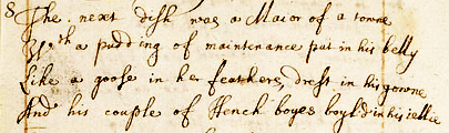 Manuscript on paper in secretary hand containing over one hundred poems by Herrick, Jonson, Corbet, Raleigh, May, Gill, and many unidentified authors. Page/Caption: p. 280-281 Songs ca. 1620-1640 1 v. (295 p.) 19 x 15 cm. Subjects: Corbet, Richard, 1582-1635 Gill, Alexander, 1597-1642 Herrick, Robert, 1591-1674 Jonson, Ben, 1573?-1637 May, Thomas, 1595-1650 English poetry Epigrams, English Love poetry, English Occasional verse, English Verse satire, English Genre: Commonplace books Manuscripts Poems Cite as: James Marshall and Marie-Louise Osborn Collection, Beinecke Rare Book and Manuscript Library, Yale University Repository: [ Beinecke Rare Book & Manuscript Library, Yale University] Bibliographic Record Number: 2031702 Call Number: Osborn b356